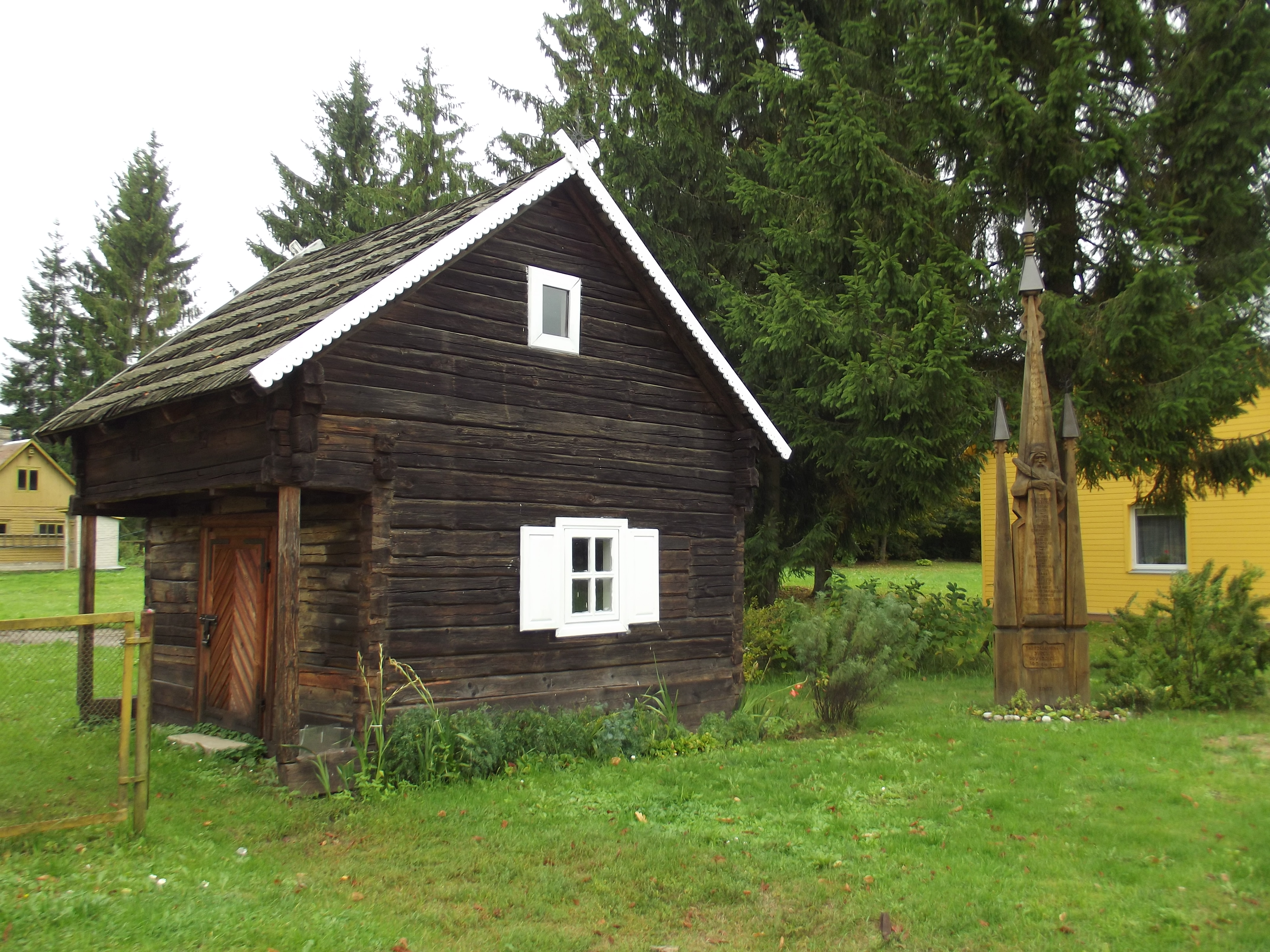 Višakio Rūda, Kazlų Rūda municipality, Lithuania